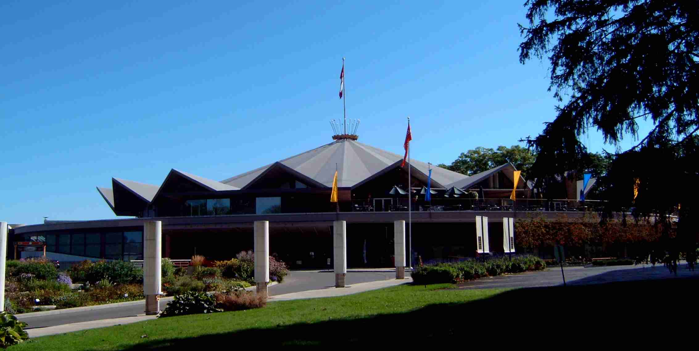 Exterior of the Festival theatre in Stratford, Ontario.